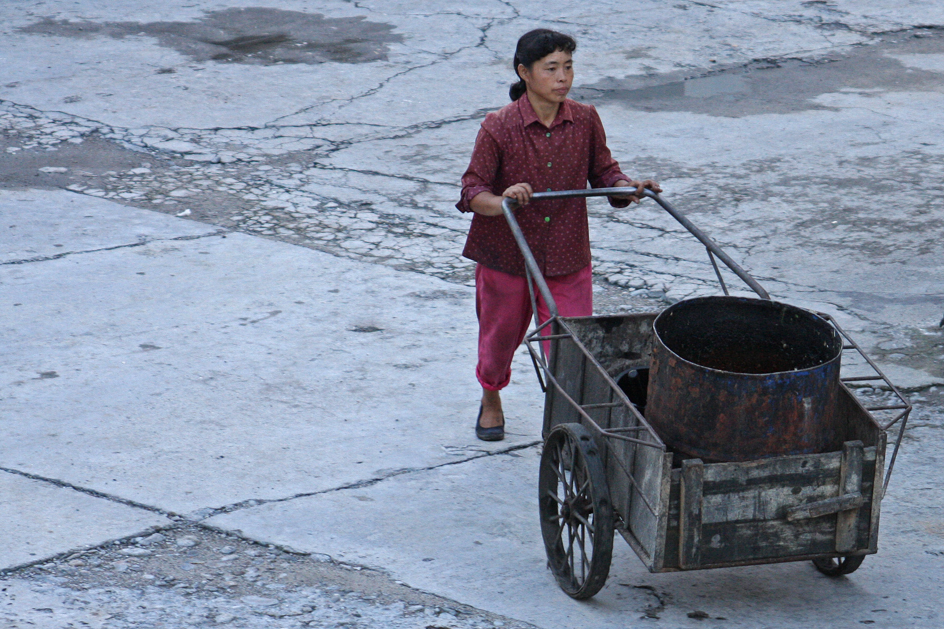 Another example of poverty in the country. View from Chongchon Hotel. The luxuriest hotel in Myohyang Mountains, Hyangsan Hotel was unfortunately under construction.